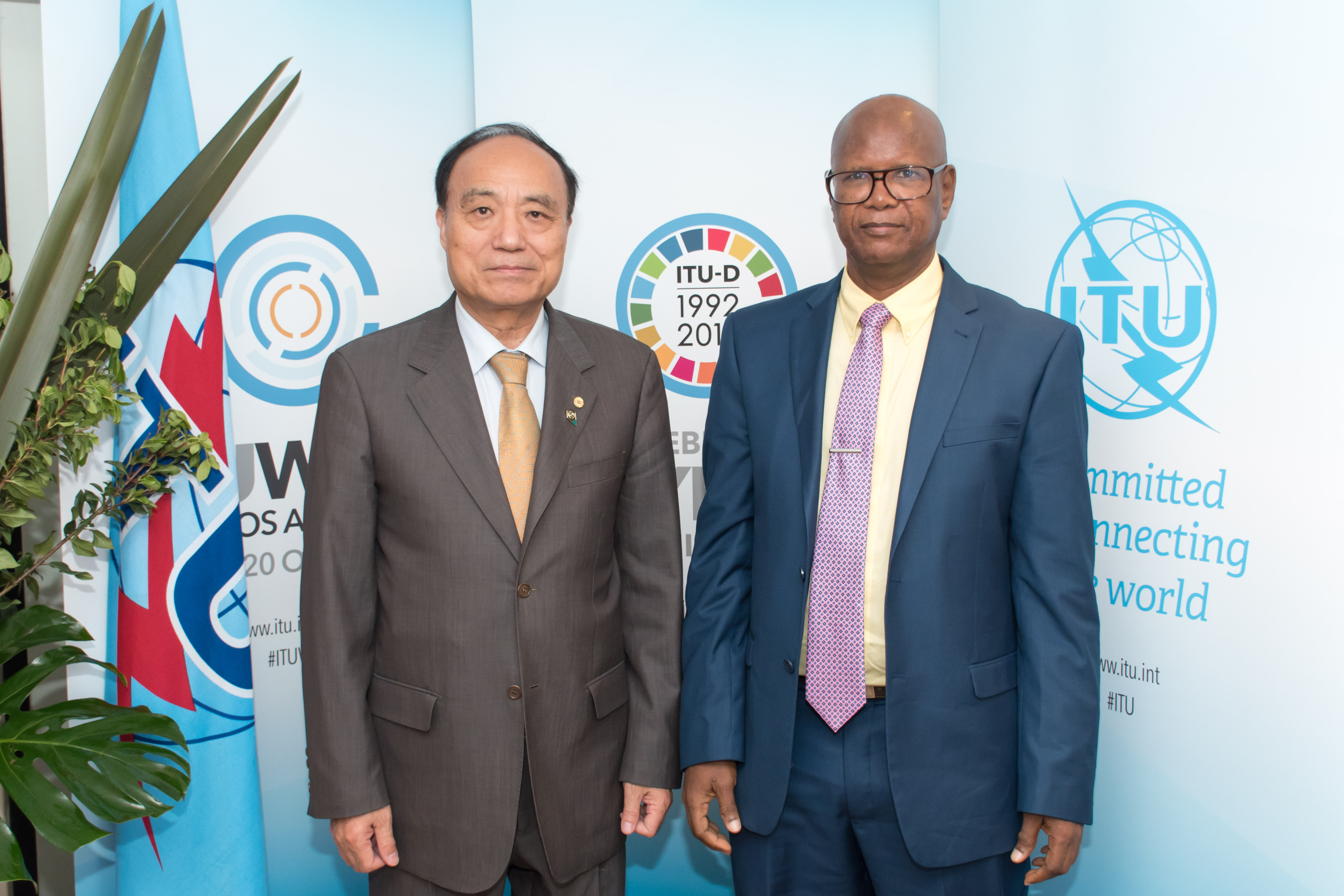 Mr. Houlin Zhao, ITU Secretary-General with H.E. Demba A. Jawo, Honourable Minister, Ministry of Informa+on and Communica+on Infrastructure, Gambia WTDC-17 Buenos Aires, Argentina © ITU/D.Woldu